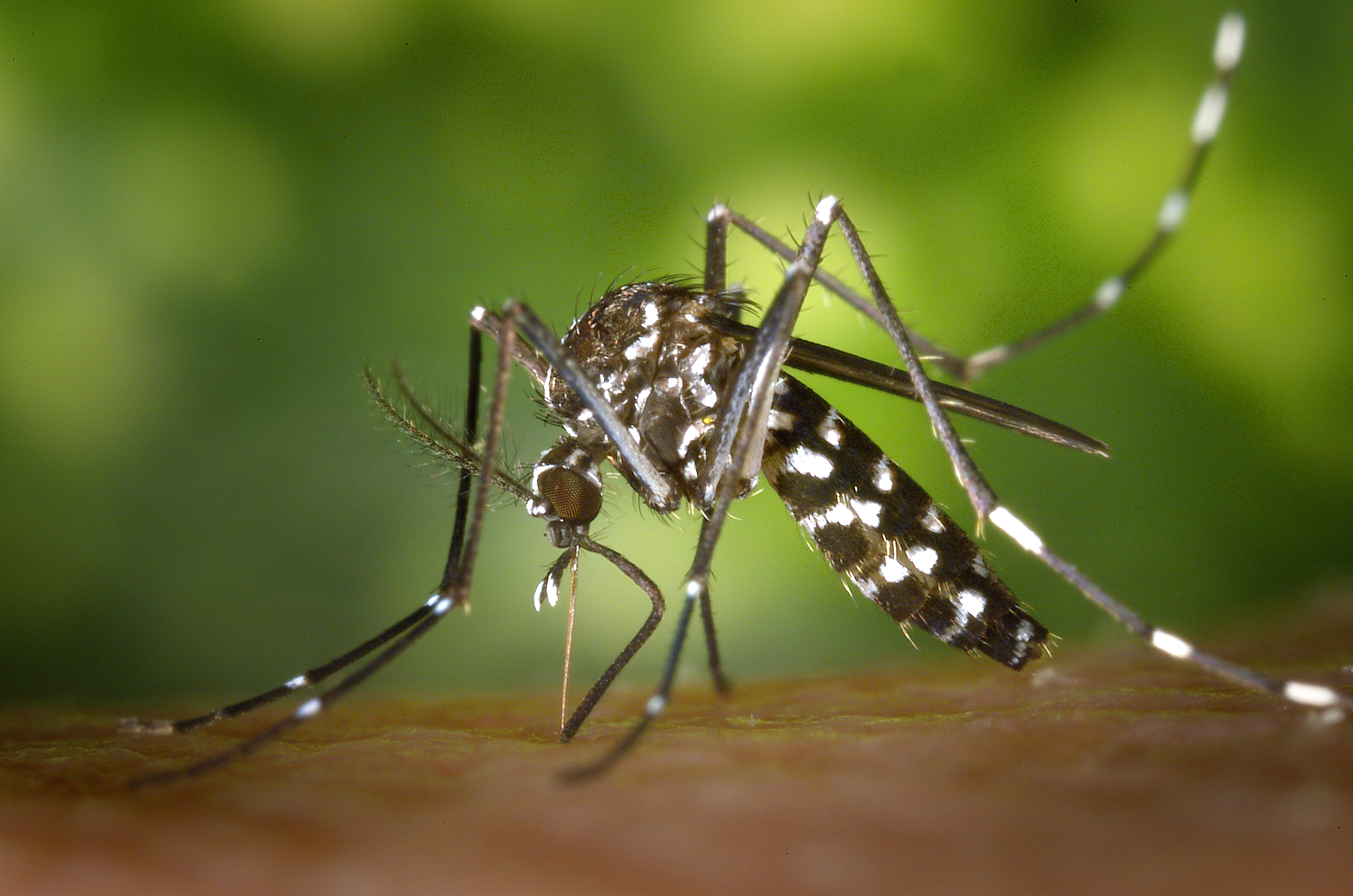 Asian tiger mosquito, Aedes albopictus, beginning its blood-meal